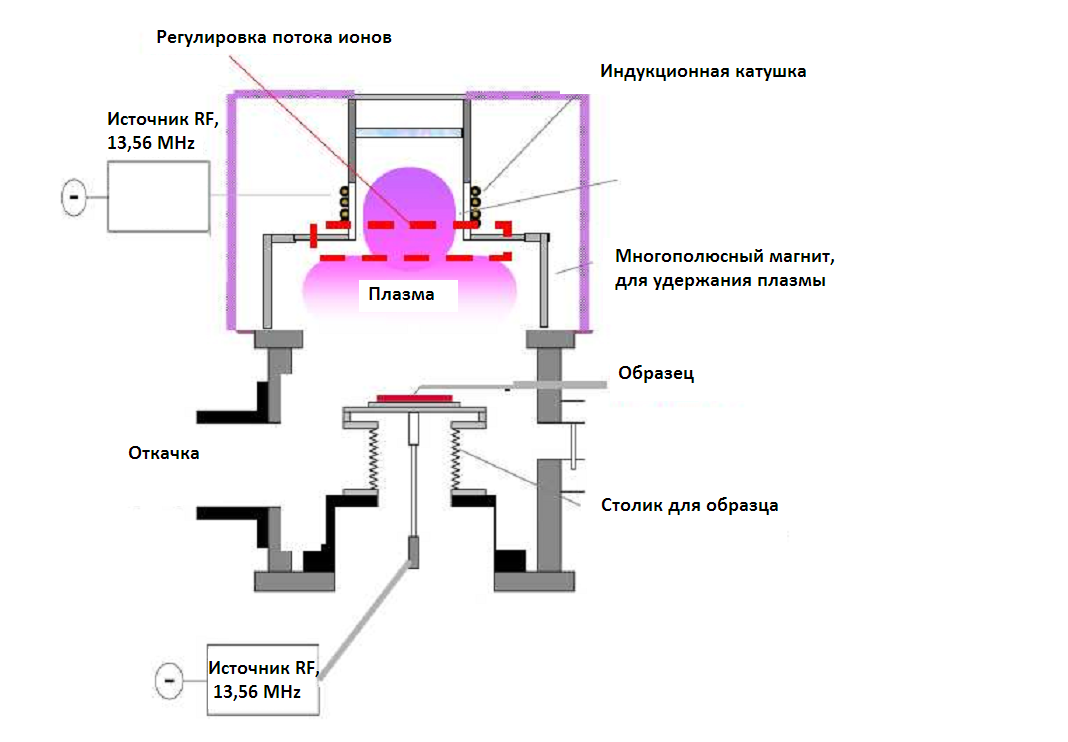 Установка для реактивного ионного травления